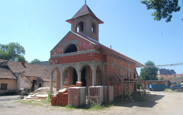 arad